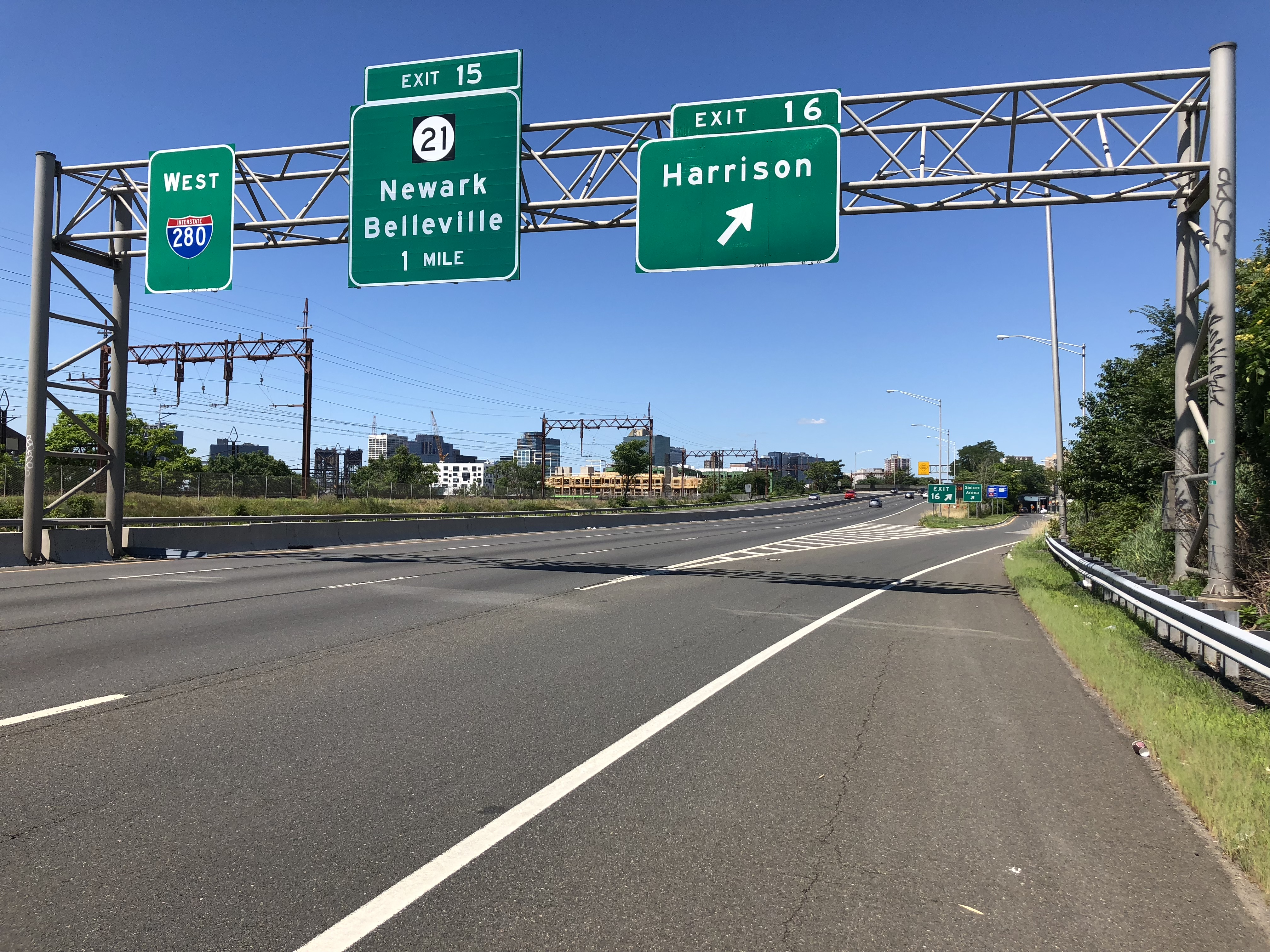 View west along Interstate 280 (Essex Freeway) at Exit 16 (Harrison) in Harrison, Hudson County, New Jersey